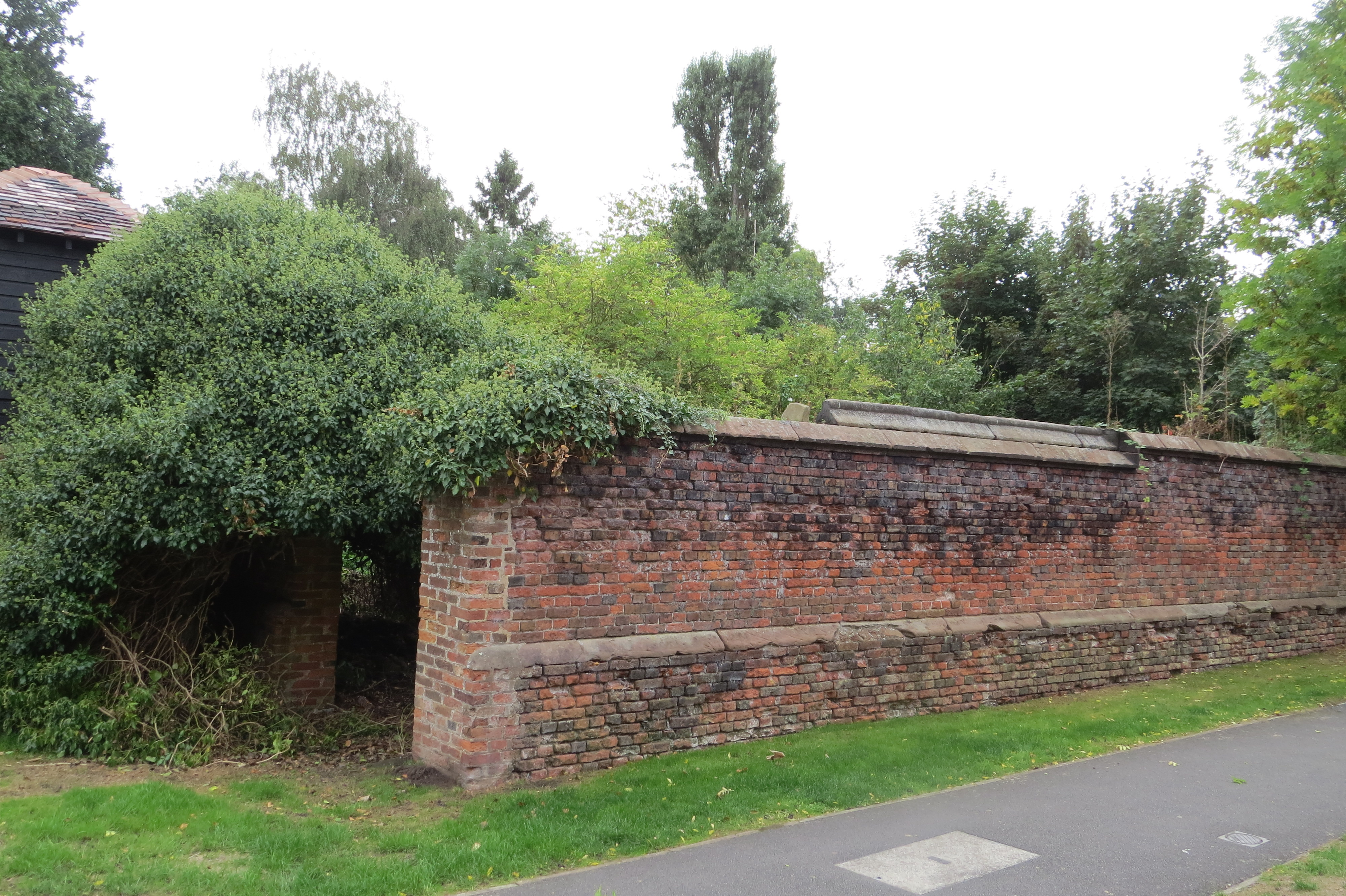 Walled Garden North Of 82 To 96 Welsh Row Wikidata has entry Q26409497 with data related to this item.